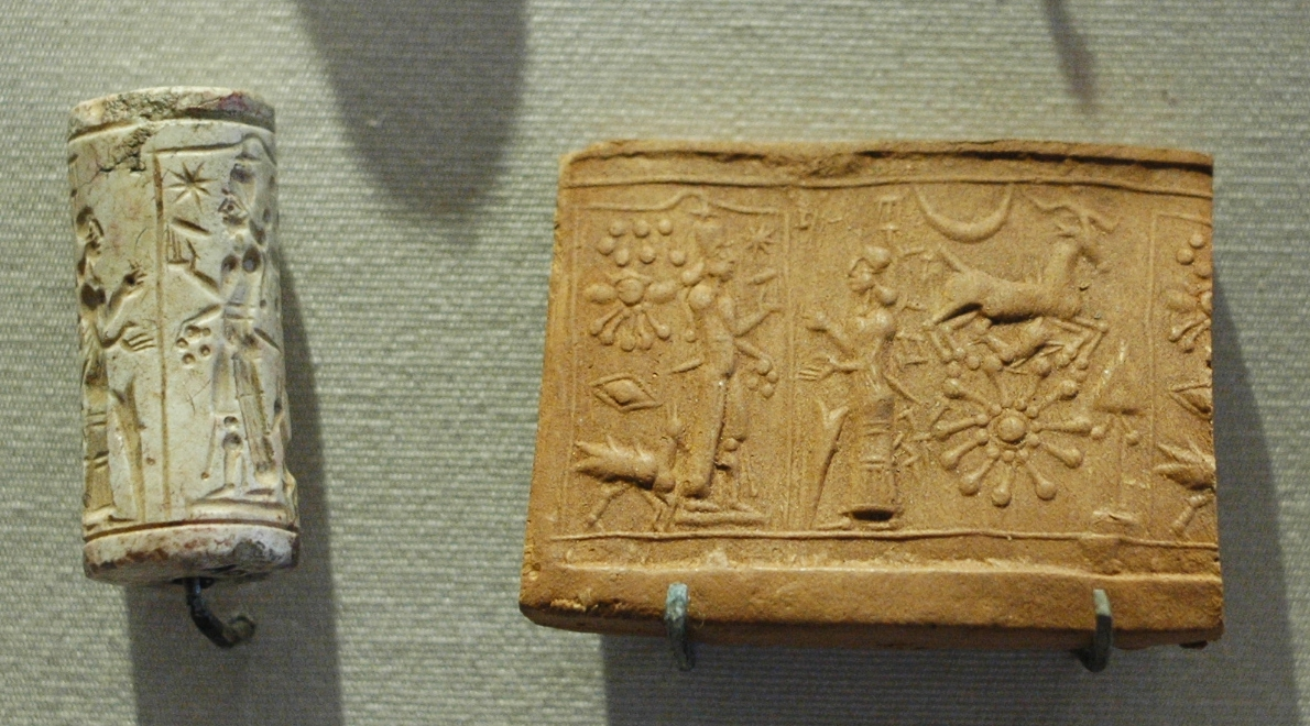 Cult scene: the worship of the sun-god, Shamash. Limestone cylinder-seal, Mesopotamia.